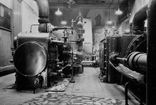 Steam engine, Indian & Primrose Mills, Church A classic gear drive cross compound engine built in 1884 by Ashton Frost of Blackburn. It ran until 1981 and was removed 1984/5 to store in the open near Howarth Art Gallery. It is not certain how much of the engine survives now. The mill has been demolished.